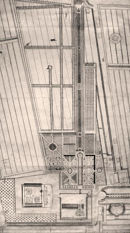 Seestermühe (Slesvic-Holstein, Germany), Floor plan of the garden of the manor